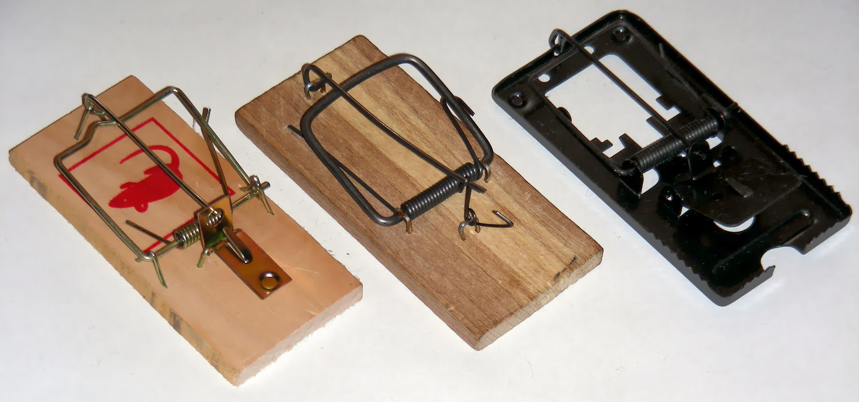 A photo of 3 mousetraps